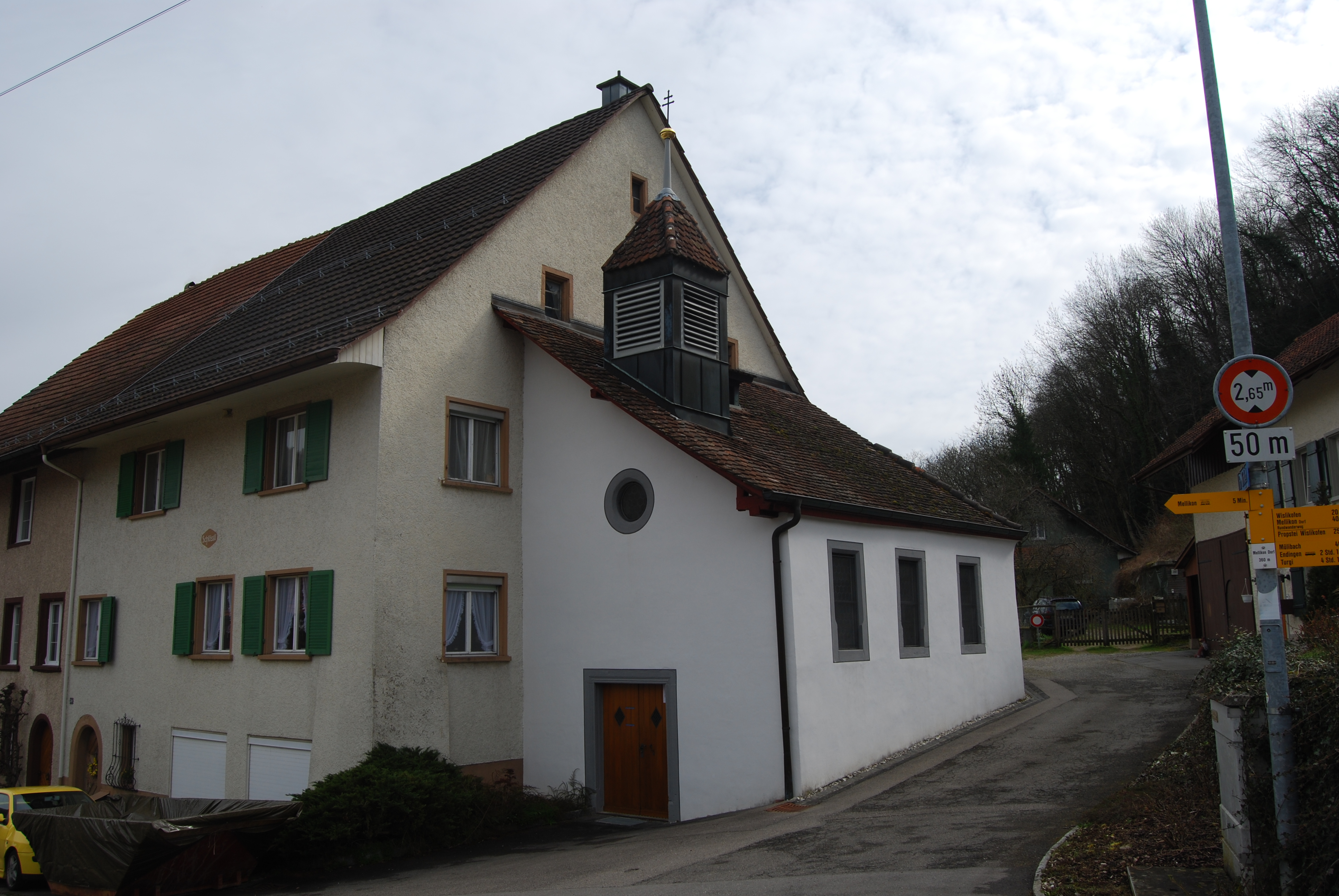 Chapel of Mellikon, canton of Aargau, SwitzerlandEsperanto: Kapelo de Mellikon, Kantono Argovio, Svislando